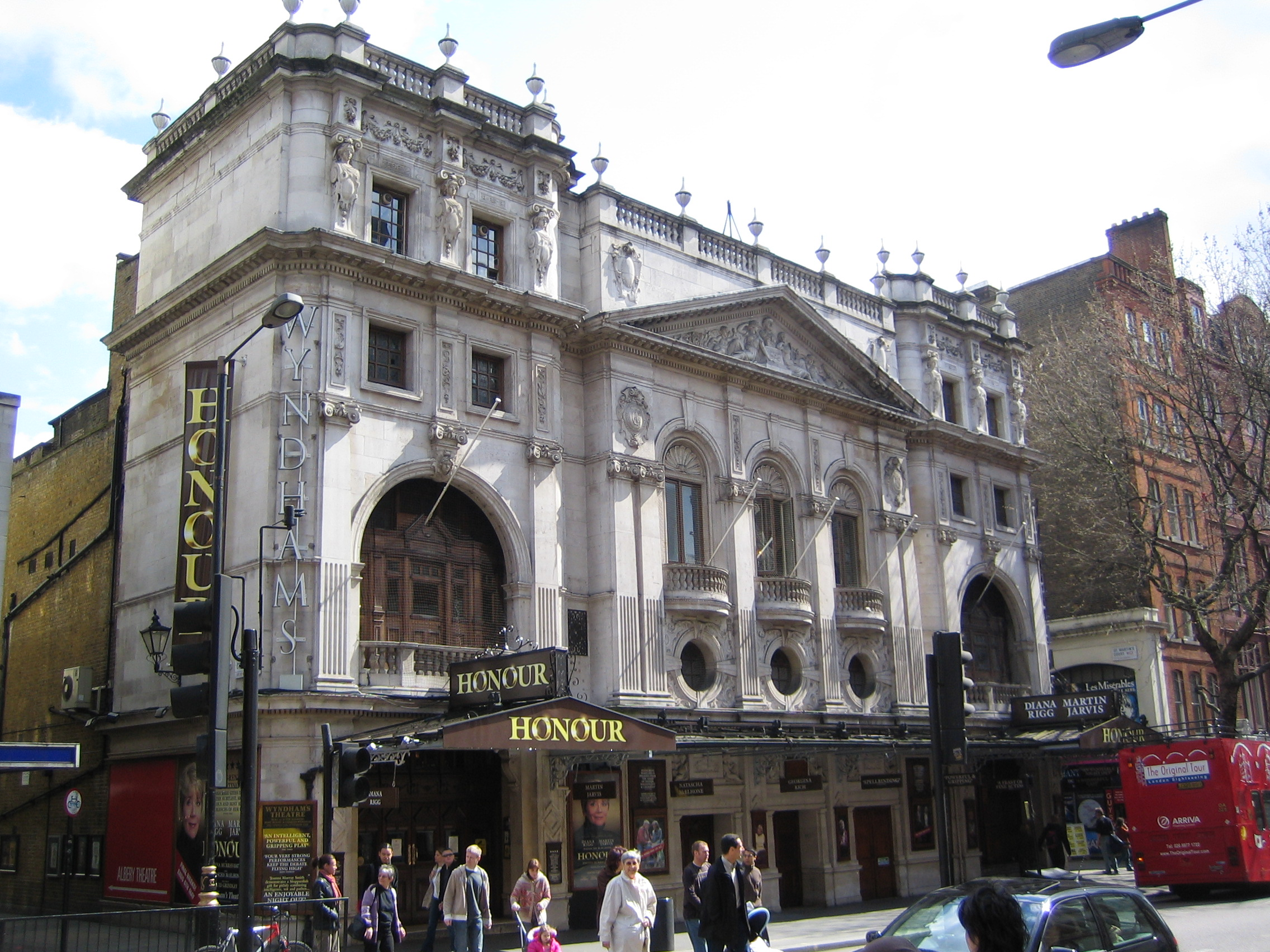 Facade of Wyndham's Theatre, London